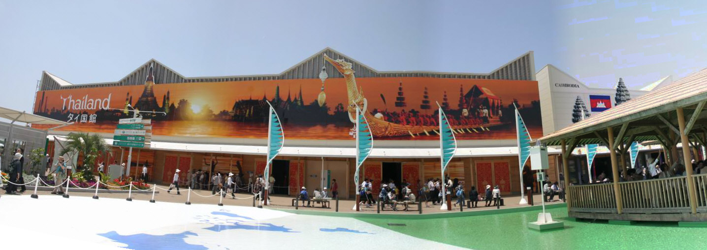 Thai Pavilion at Aichi Expo 2005